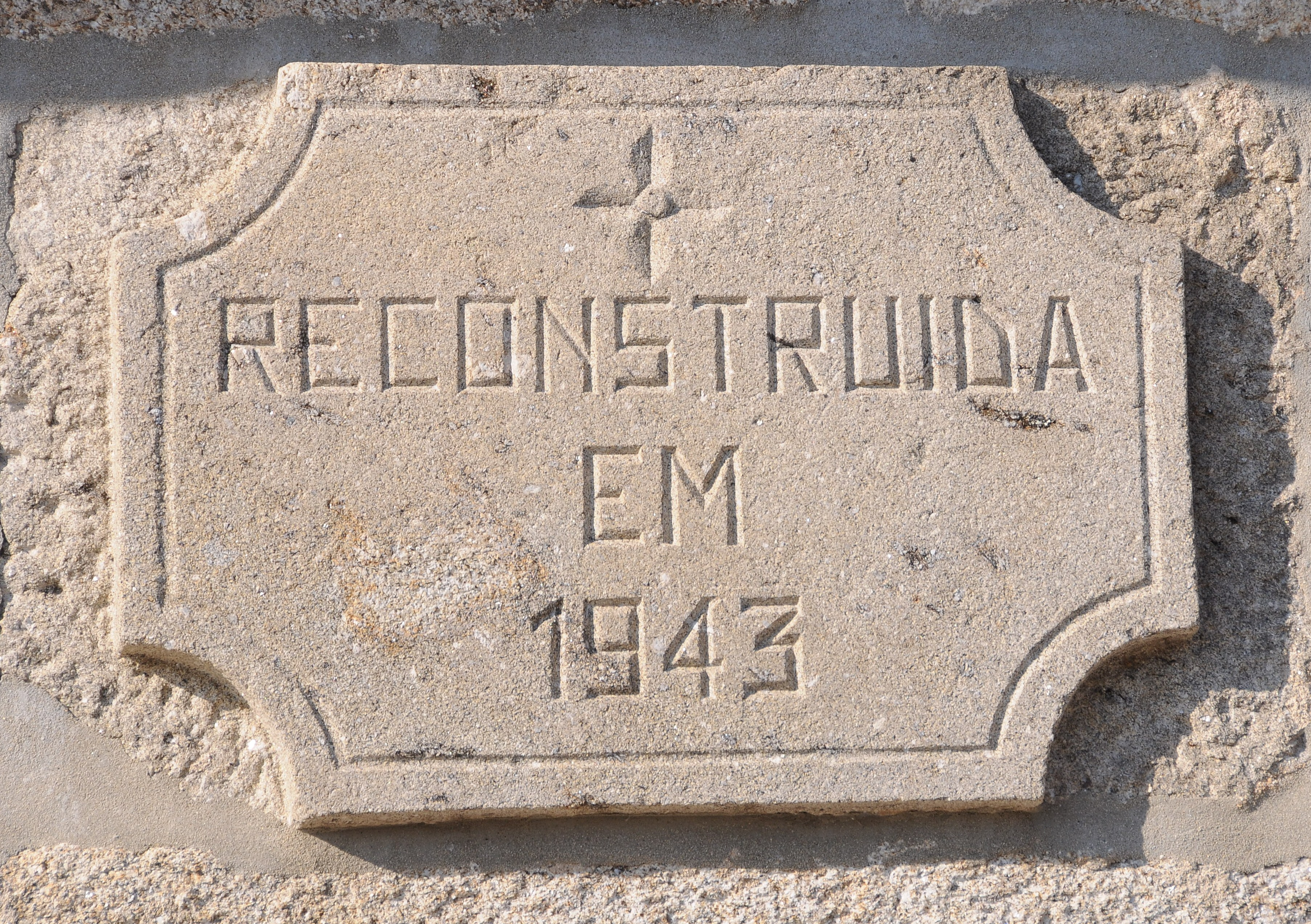 Plaque in Alvaredo Church, Melgaço, Portugal